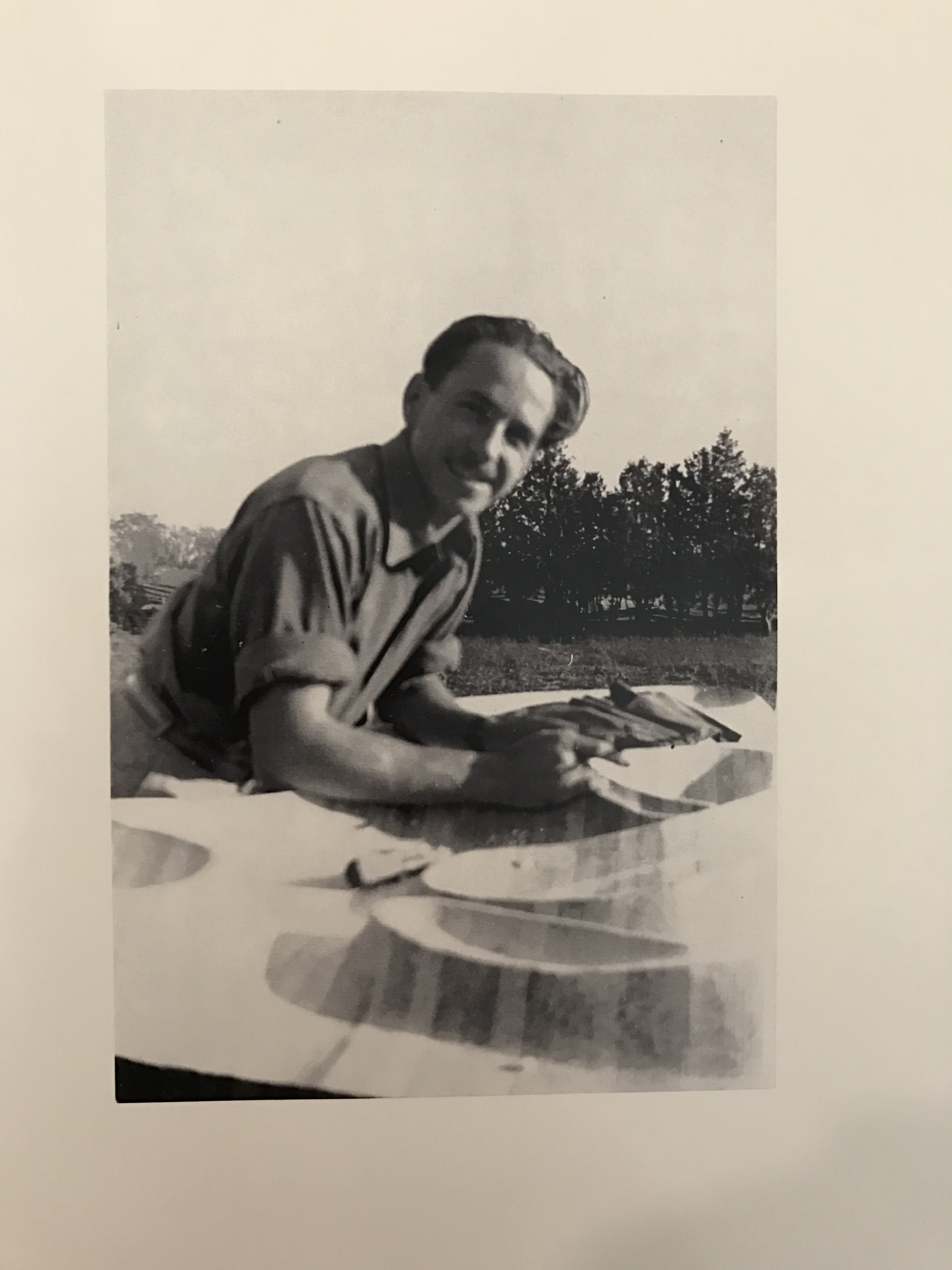 E.B. Cox, at his home in Palgrave, Ontario, carving a front door in laminated pine, commissioned by Gavin Henderson, in 1949. The piece was later acquired by the Guild Inn in the 1950s.